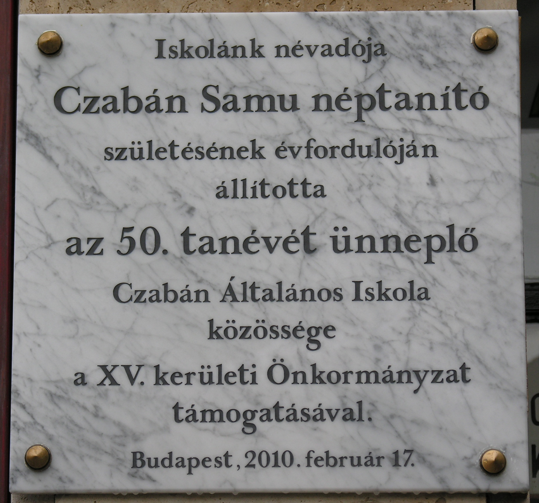 Commemorative plaque of Samu Czabán, Budapest District XV, Széchenyi Square No 13